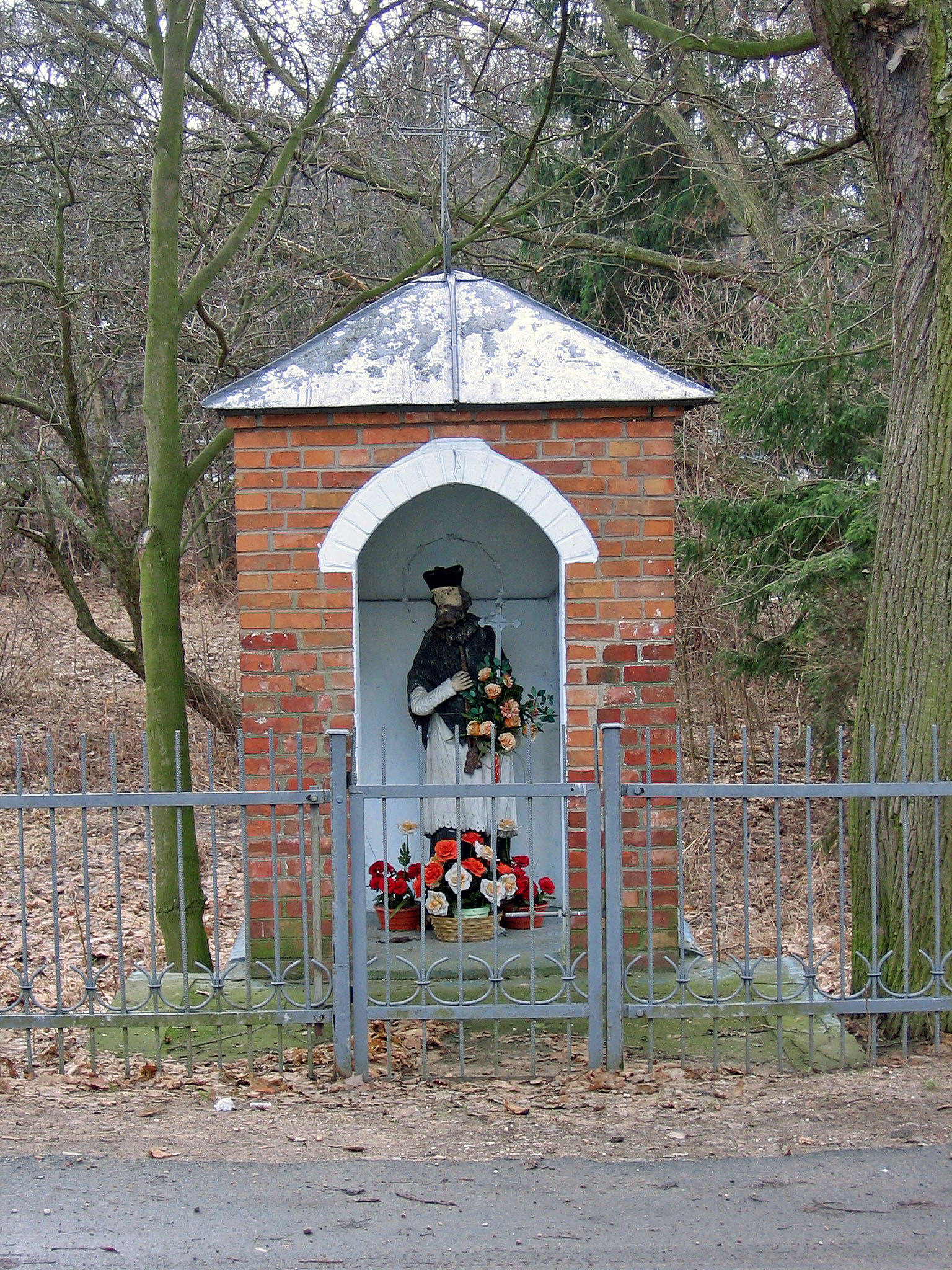 Shrine in Dobrzyków